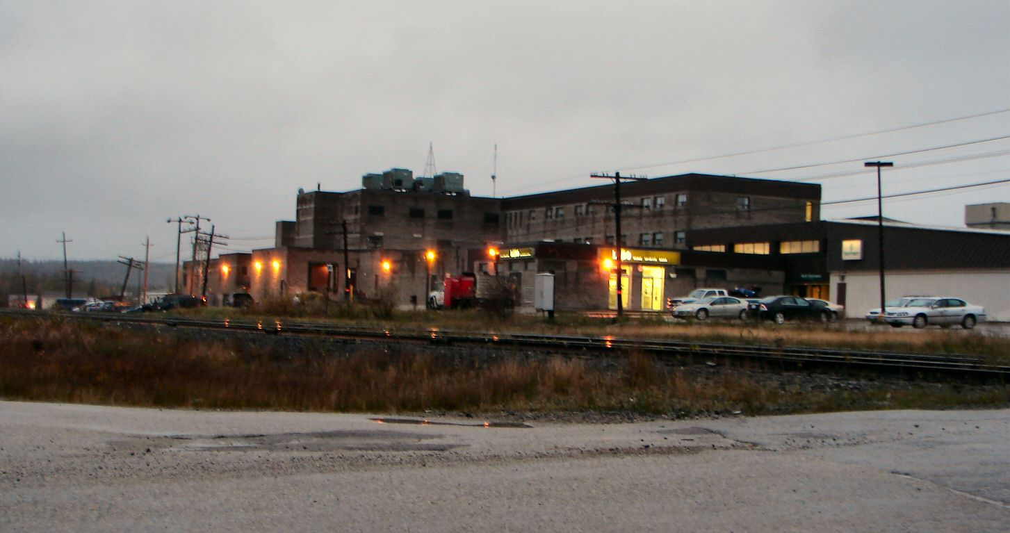 Hallmark Center, Hornepayne, Algoma District, Ontario, Canada